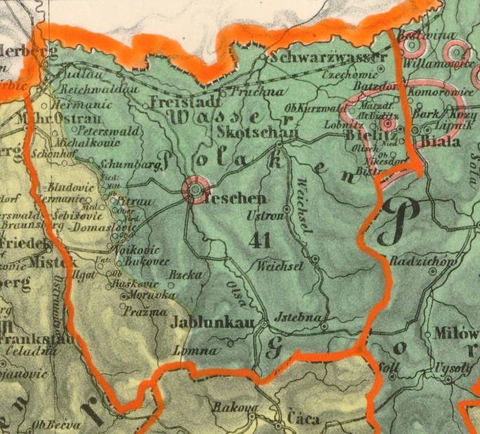 Cieszyn Silesia linguistic map from 1855